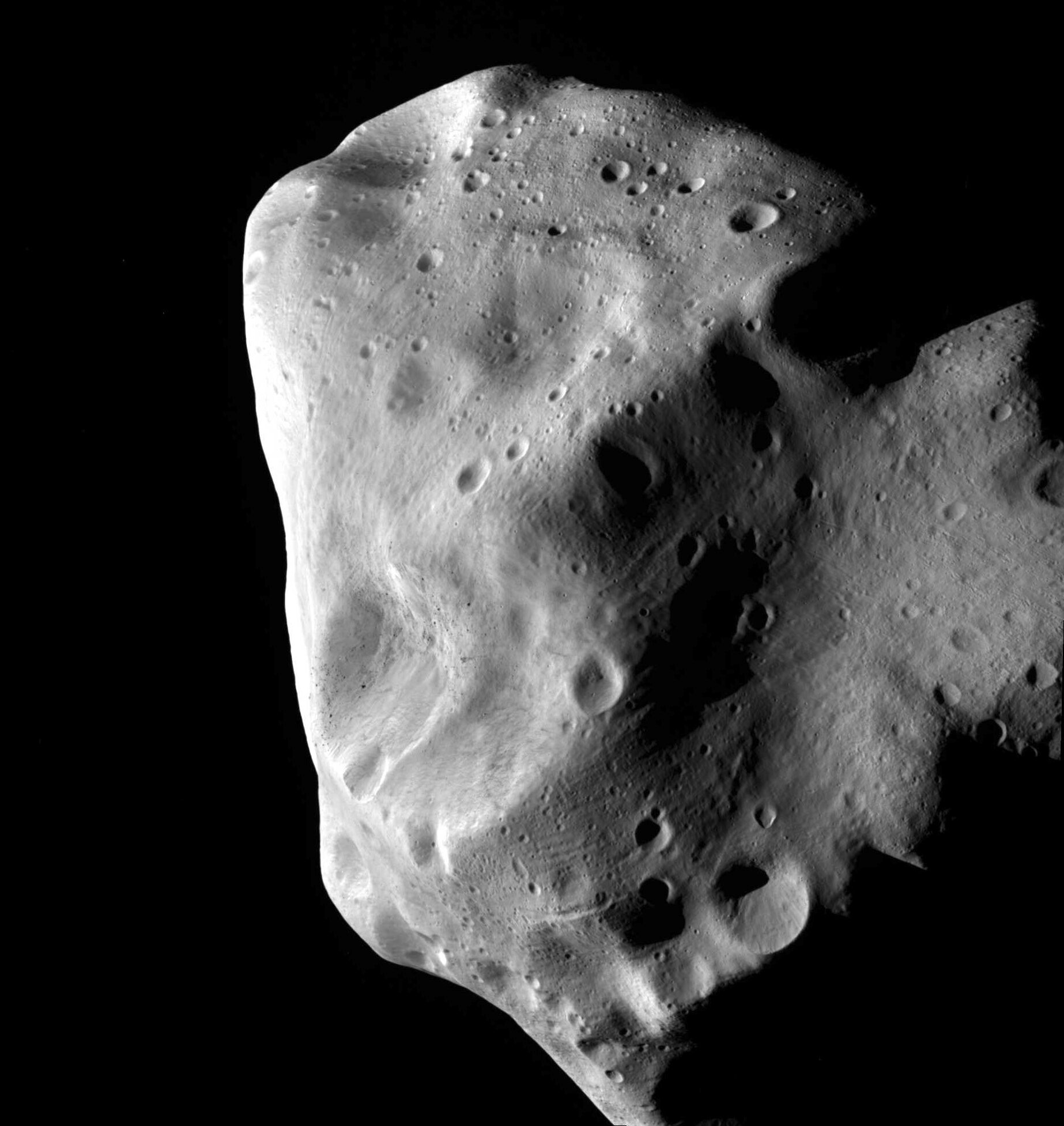 This image of the unusual asteroid Lutetia was taken by ESA’s Rosetta probe during its closest approach in July 2010. Lutetia, which is about 100 kilometres across, seems to be a leftover fragment of the same original material that formed the Earth, Venus and Mercury. It is now part of the main asteroid belt, between the orbits of Mars and Jupiter, but its composition suggests that it was originally much closer to the Sun.